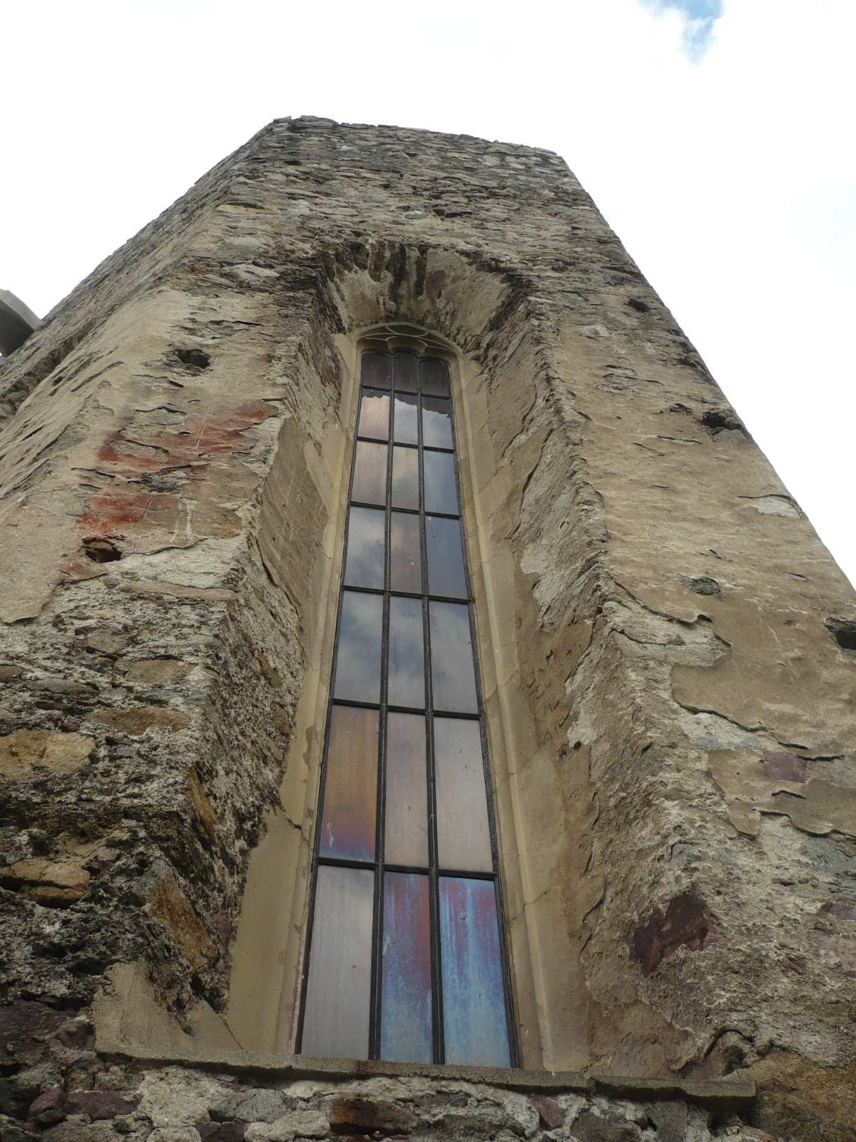 Strecno Castle, Slovakia - window